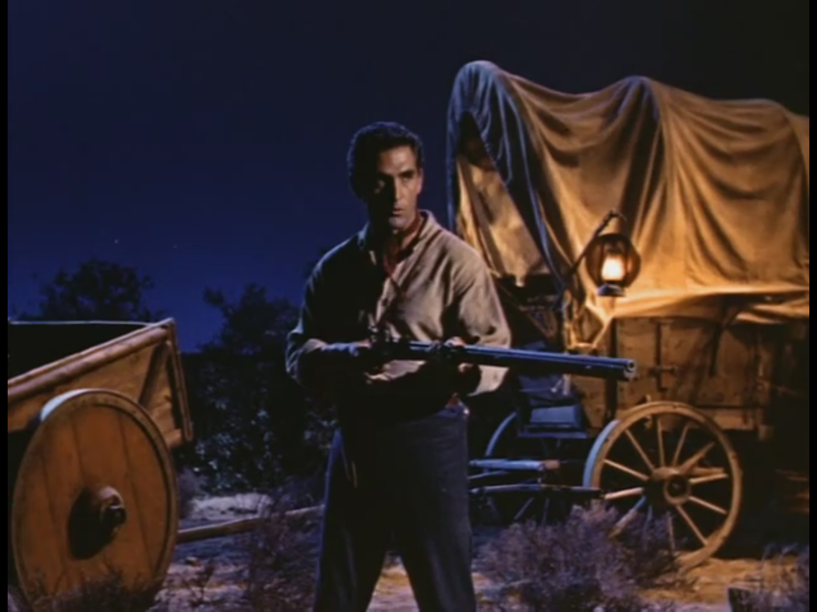 Jacques Bergerac in trailer for Thunder in the Sun (1959)